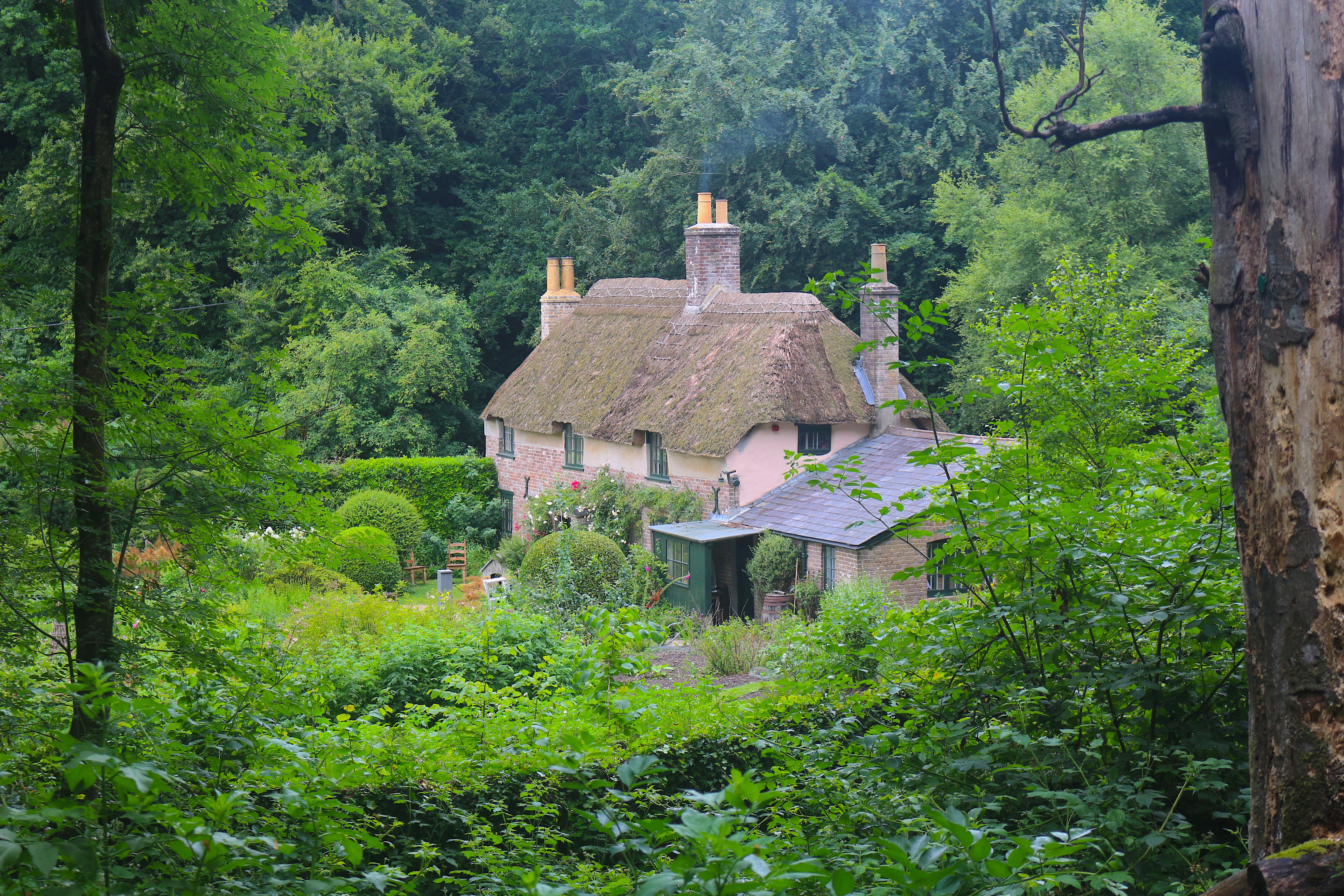 Thomas Hardy's Cottage Wikidata has entry Q5859508 with data related to this item.